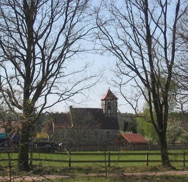 Stonechurch in Möllensdorf, probably built in 12th century. Möllensdorf is a municipality in the Nature park Fläming in the district Wittenberg, state Saxony-Anhalt, Germany.